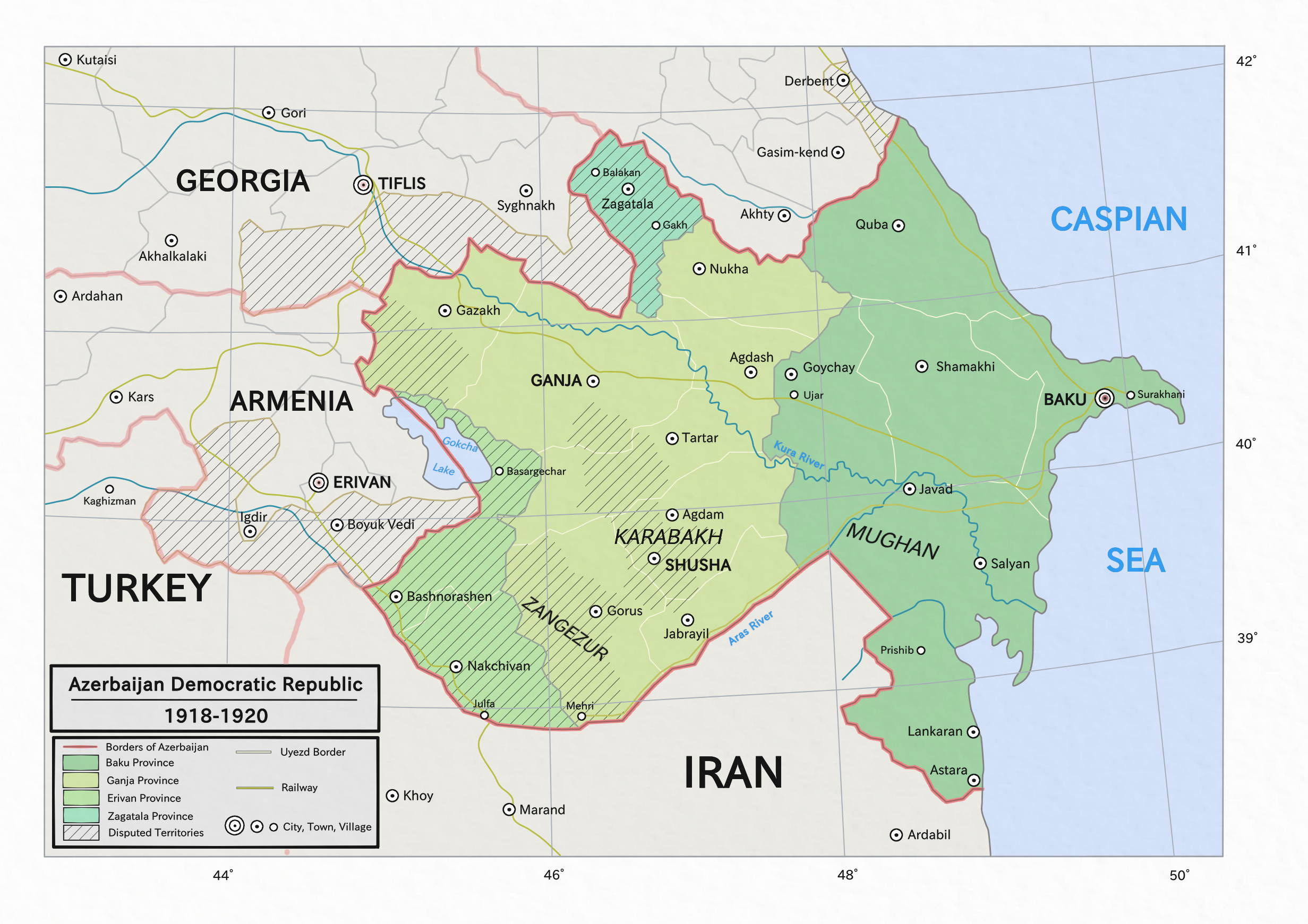 Map of Azerbaijan Democratic Republic with provinces, railways, disputed territories and claimed territories shown